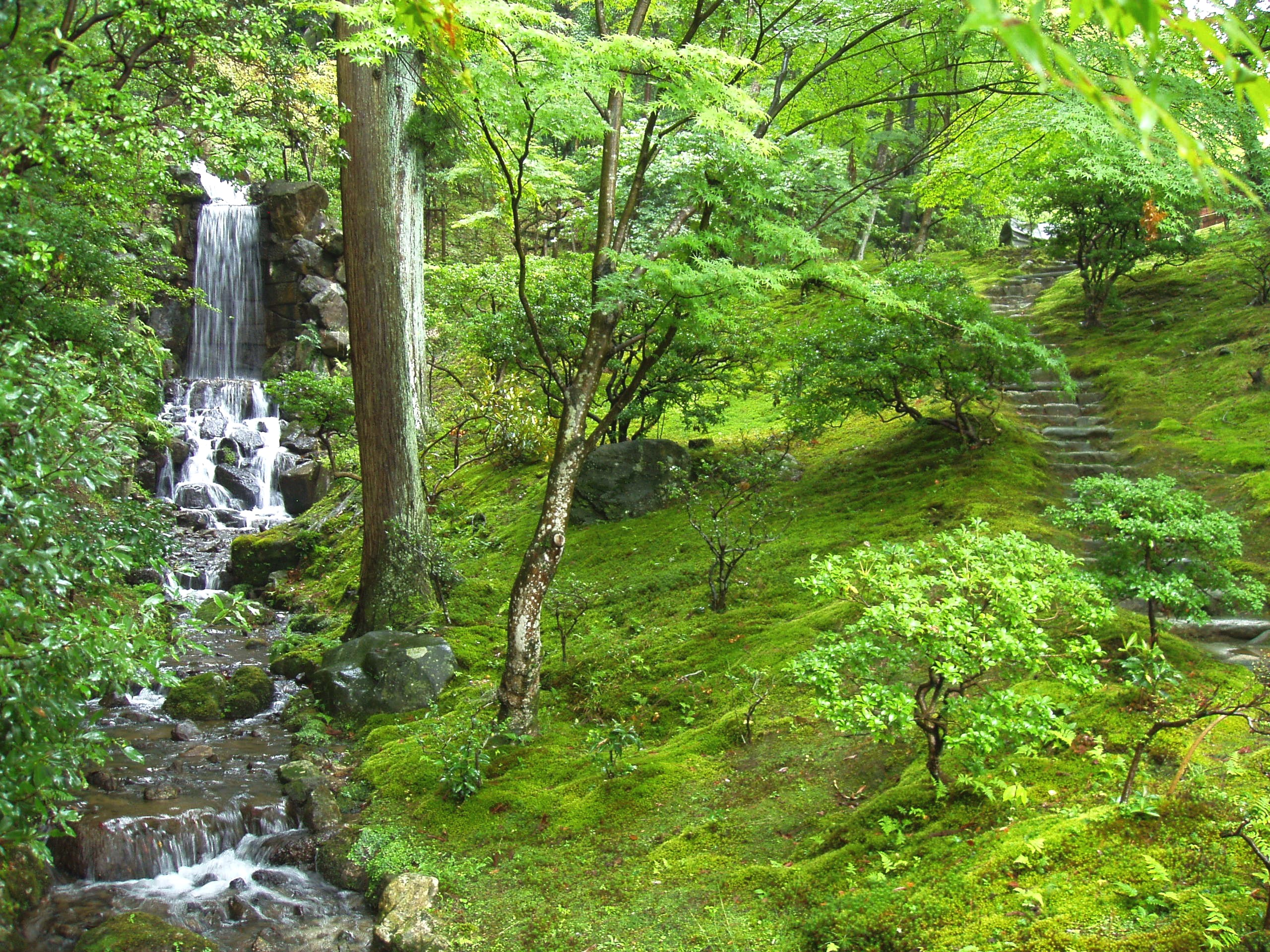 Shugaku-in Imperial Villa, Kyoto, Japan - Upper Garden male waterfall.